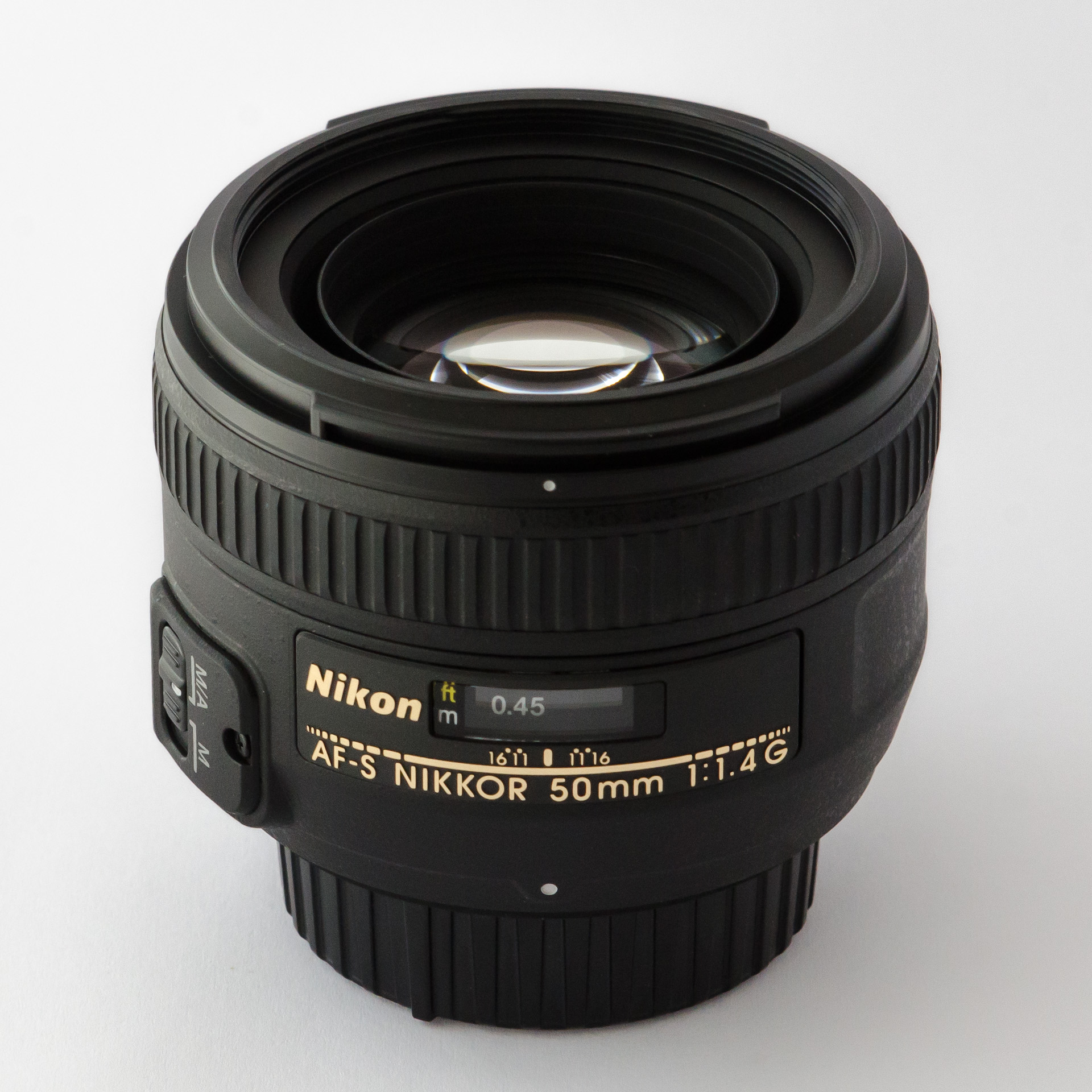 AF-S Nikkor 50mm F1.8G set to its minimum focussing distance